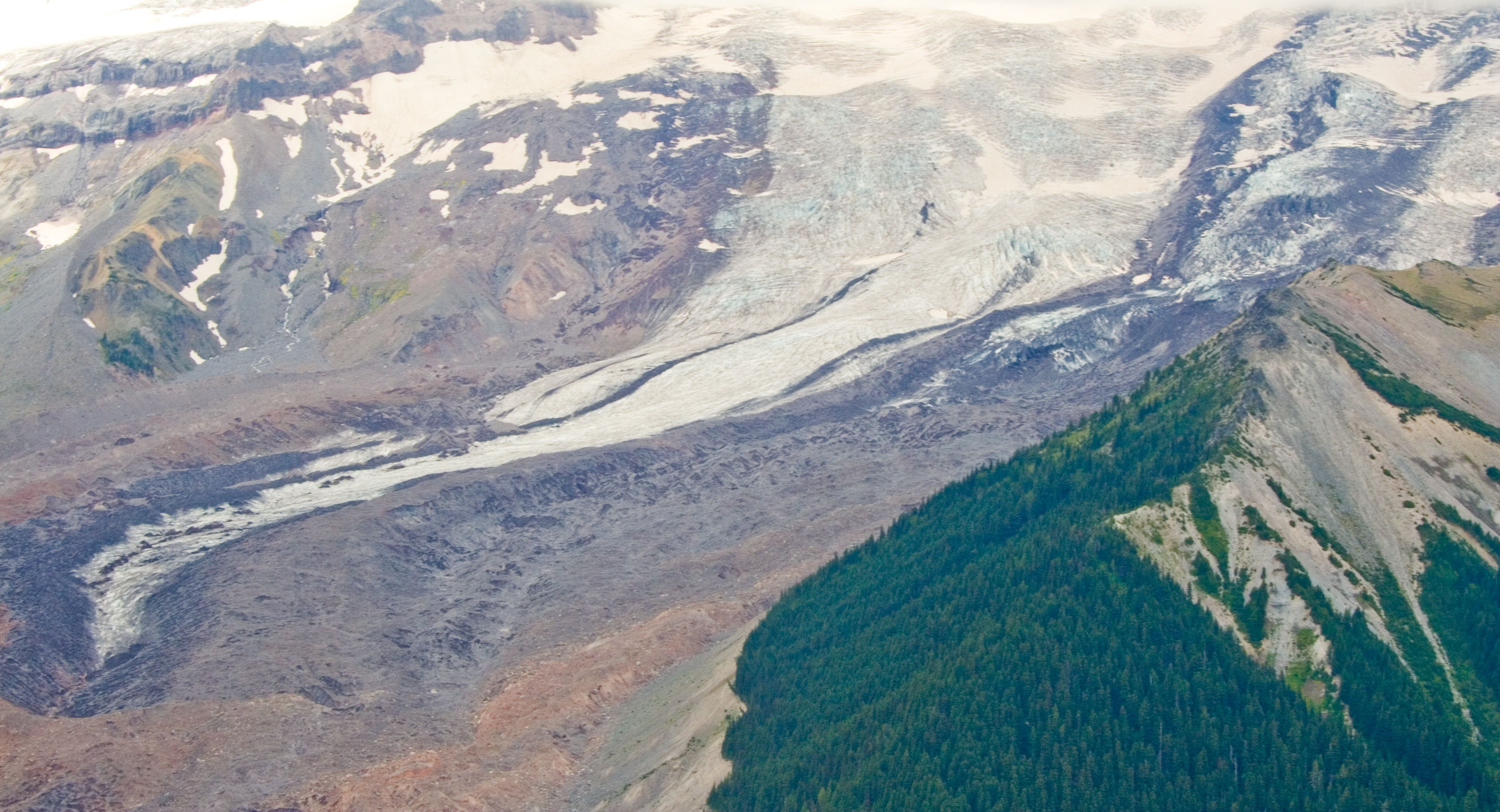 Emmons Glacier at Mt. Rainier in Washington, USA